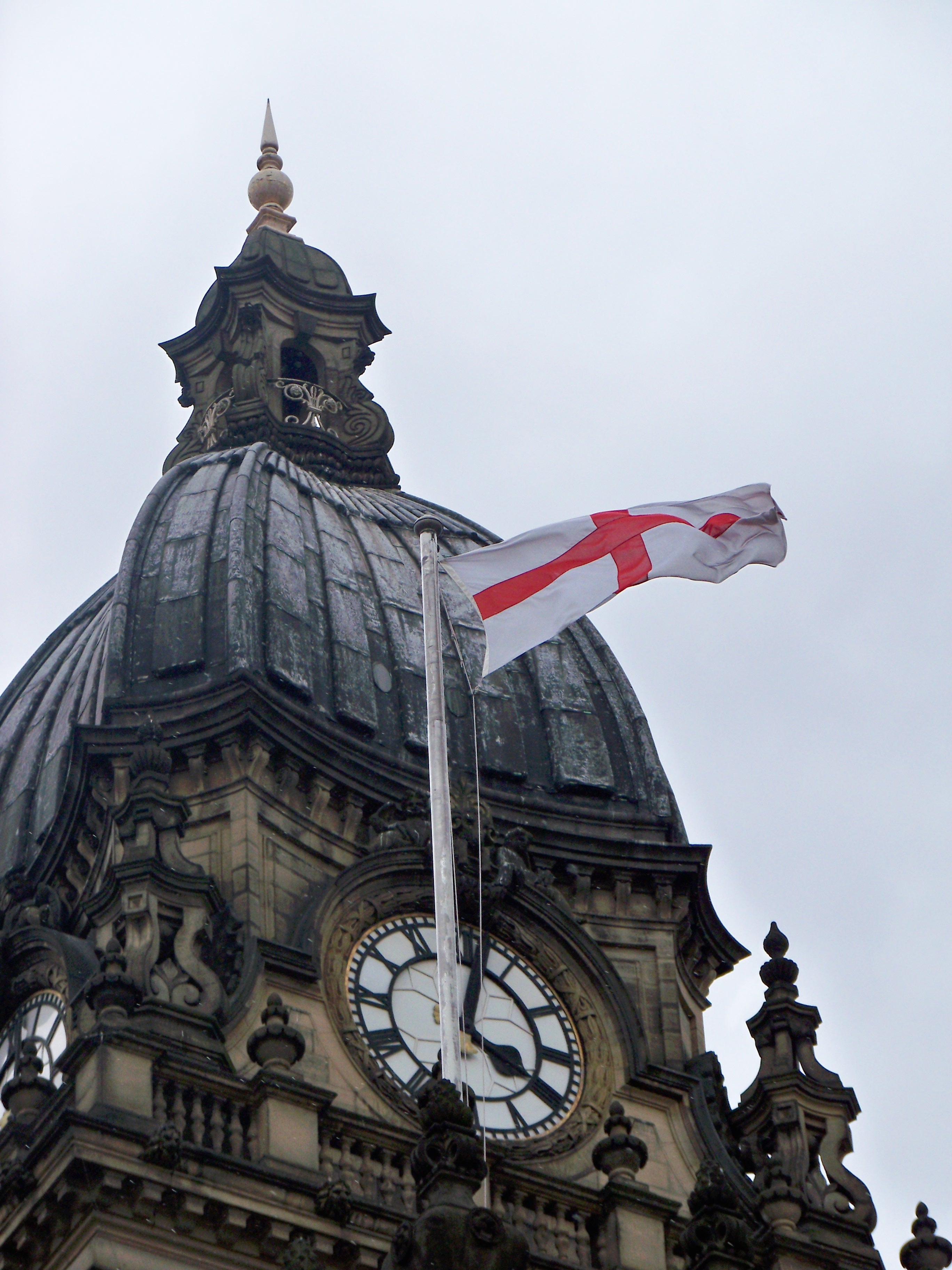 St George's flag flying on Leeds Town Hall in Leeds, West Yorkshire, UK. Taken on the 9th May 2009.